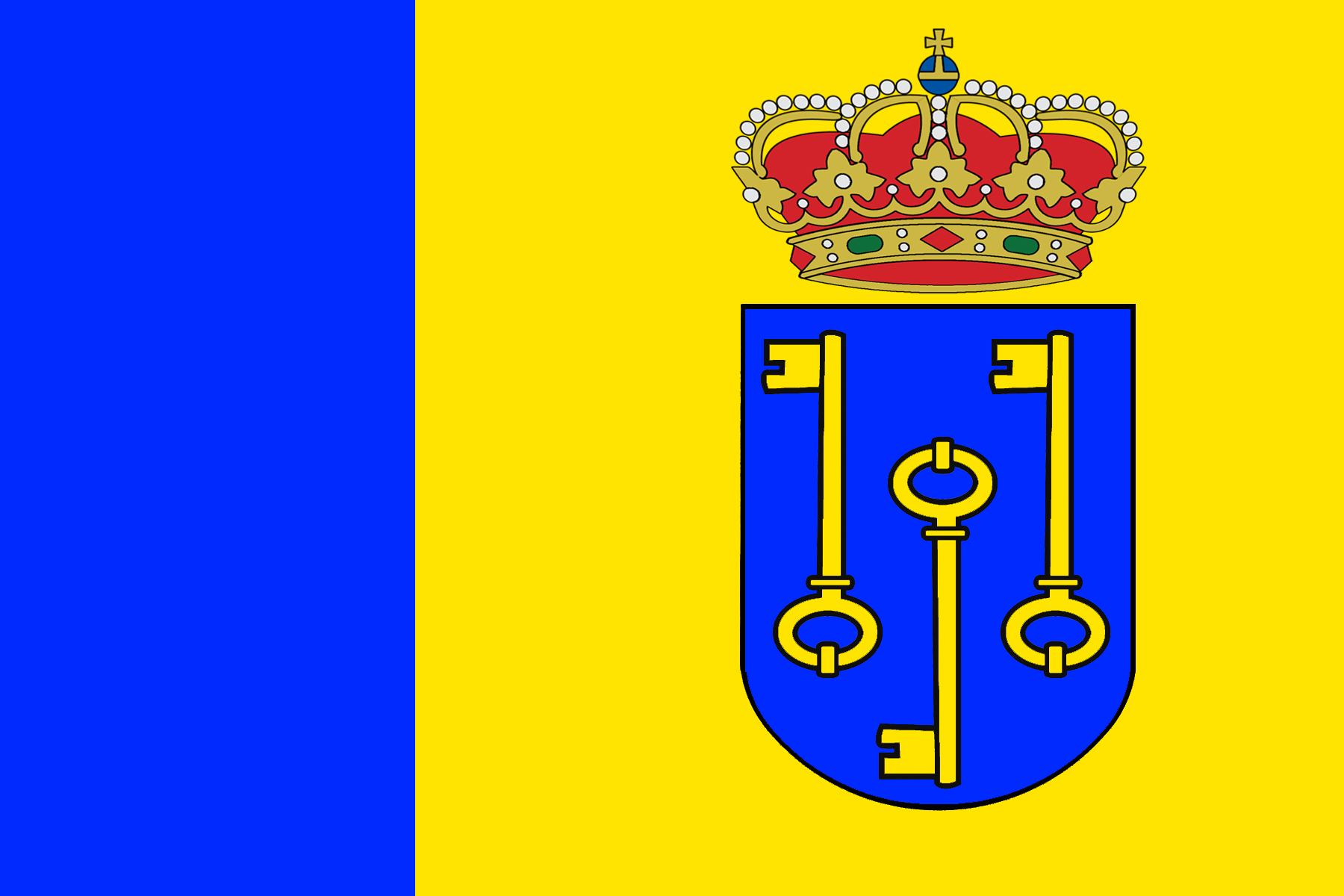 Liegos' flag (Leon, Spain)